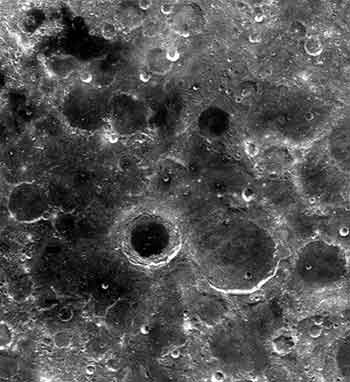 Mare Australe is located in the southeastern hemisphere of the moon. It overlaps the near and far sides of the moon, and is 603 miles in diameter. The basin containing the mare is of the Pre-Nectarian epoch, while the actual mare material is of the Upper Imbrian epoch. Smooth, dark volcanic basalt lines the bottom of the mare. Notice the crater Jenner in the middle of the photo, this is an Imbrian crater that was later filled with mare basalt. Just to the left of Jenner is the crater Lamb.